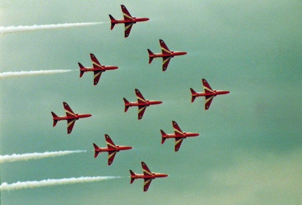 The Royal Air Force Red Arrows aerobatics team, flying the Hawker Siddley Hawk T.1 at an airshow at Ramstein Air Base, Rhineland-Palatinate (Germany) on 24 June 1984.